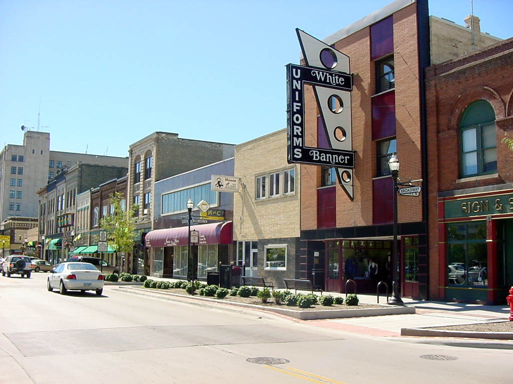 Street scene in downtown Fargo, North Dakota